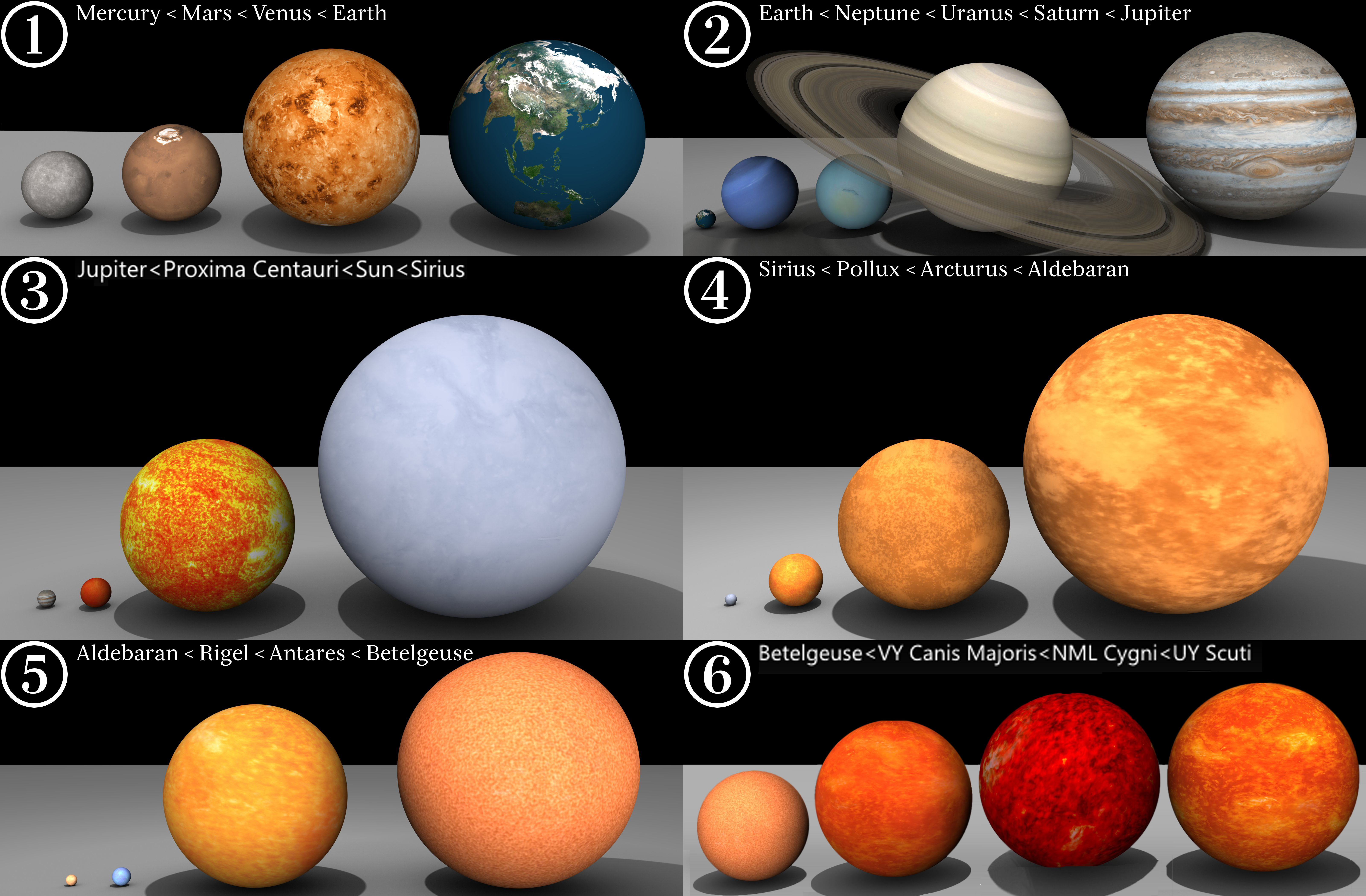 Updated comparison of stars by size